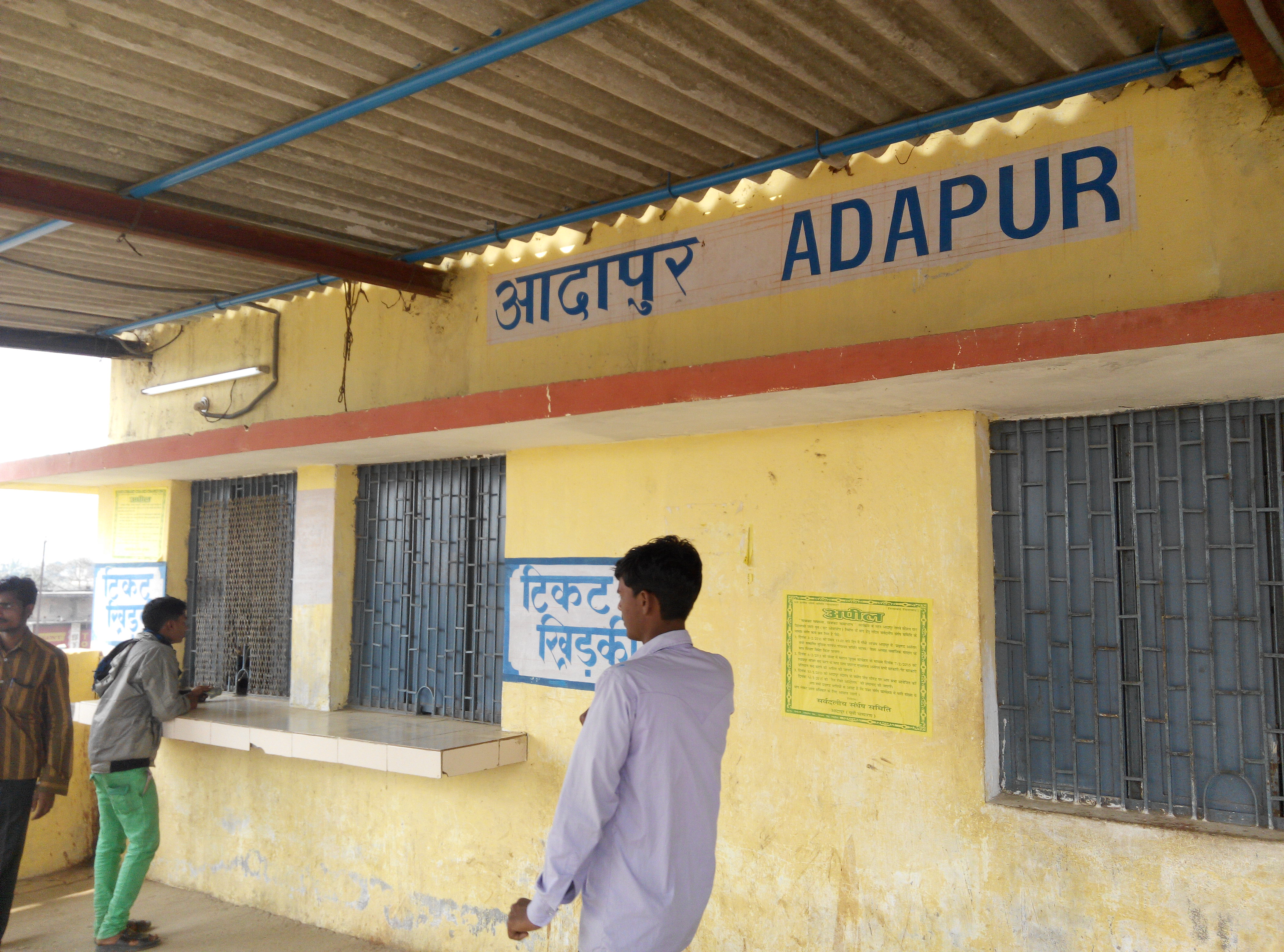 One can purchase unreserved ticket.